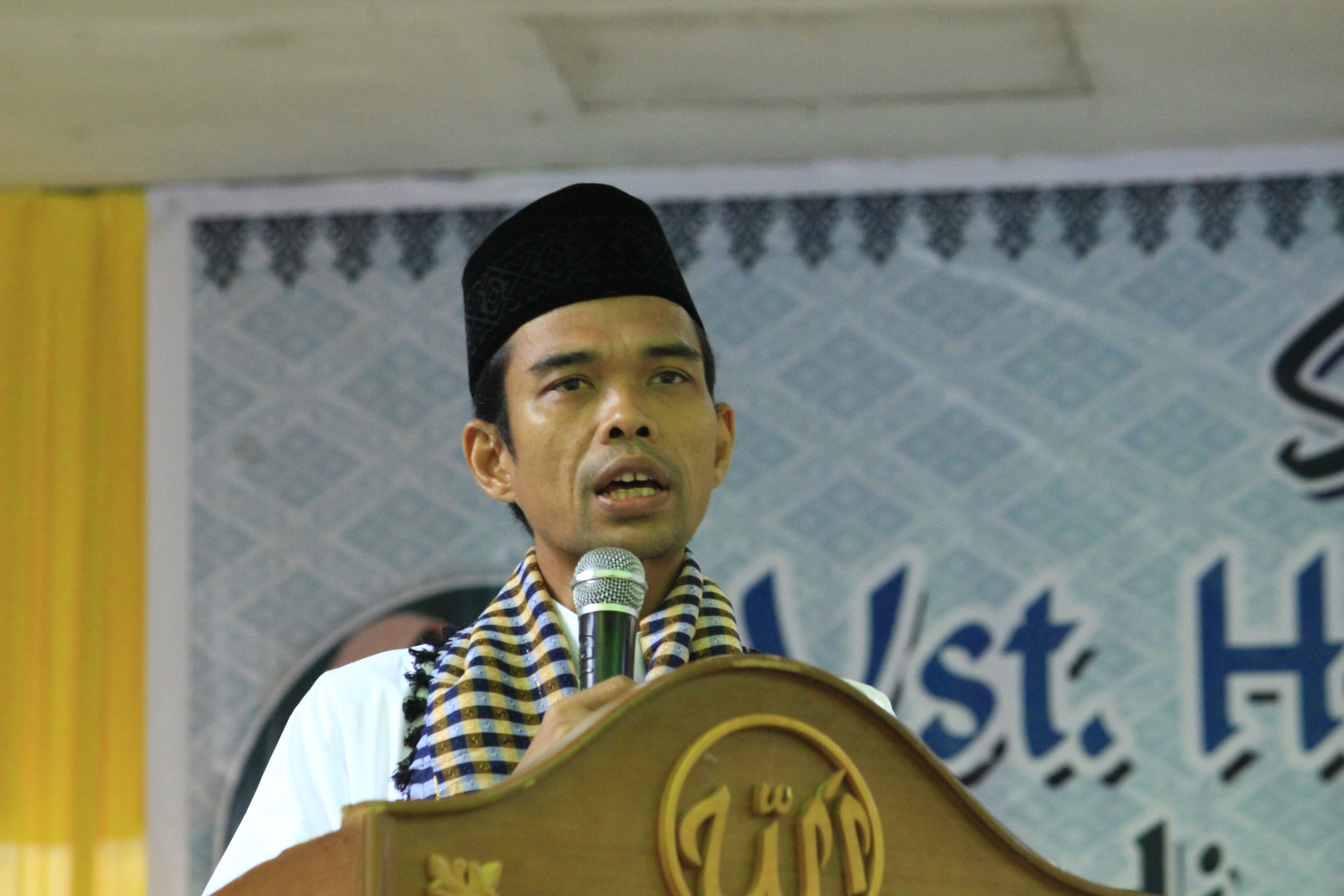 Ustadz Abdul Somad, an Indonesian Muslim preacher, speaking at a school event in Pekanbaru, Riau. Originally shot by Tengku Said Muhtarom Ismail, uploaded with explicit permission.